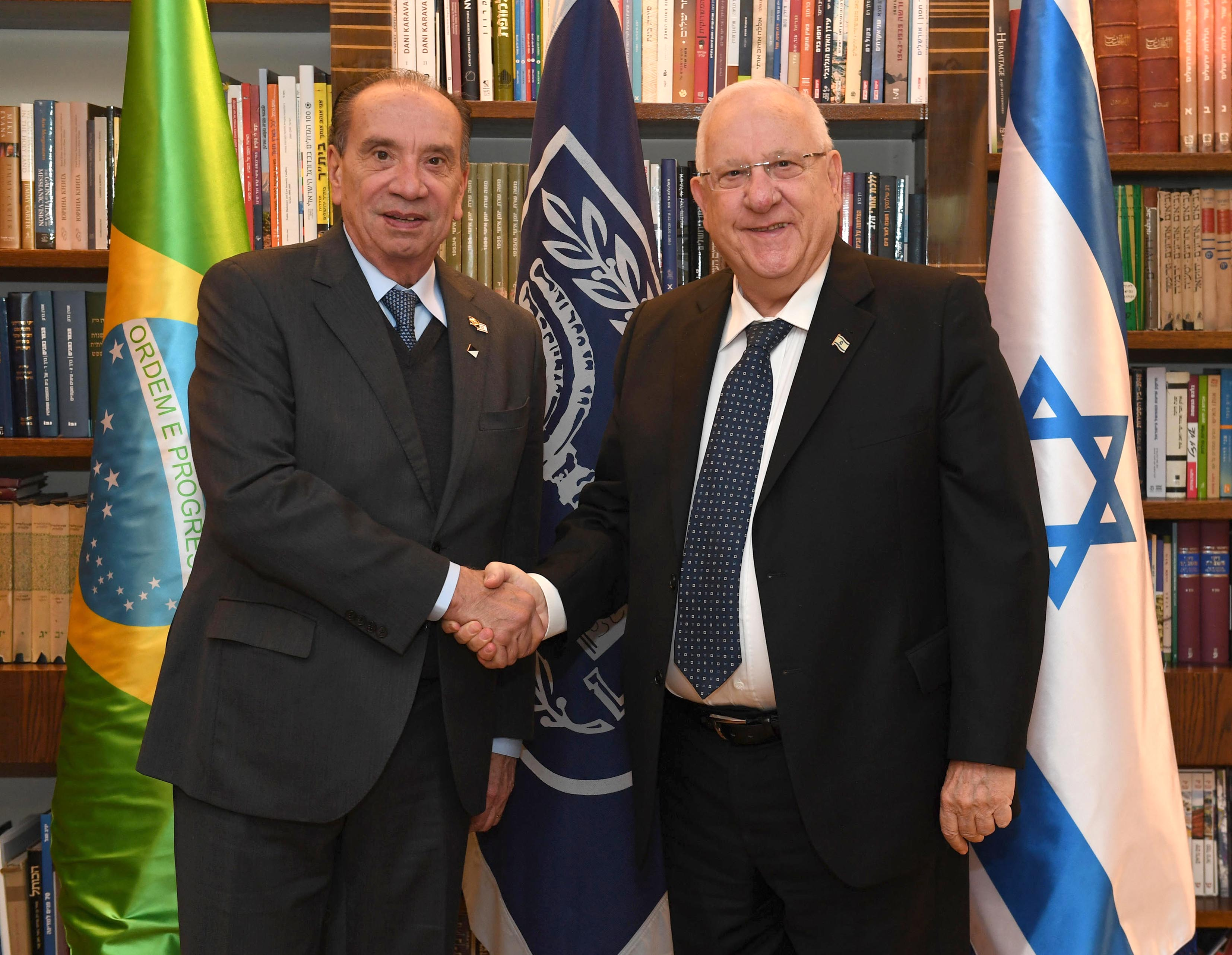 President of Israel, Reuven Rivlin, at a working meeting with the Brazilian Foreign Minister Aloysio Nunes. Tuesday, February 27, 2018. Photo Credit: Mark Neyman / GPO.